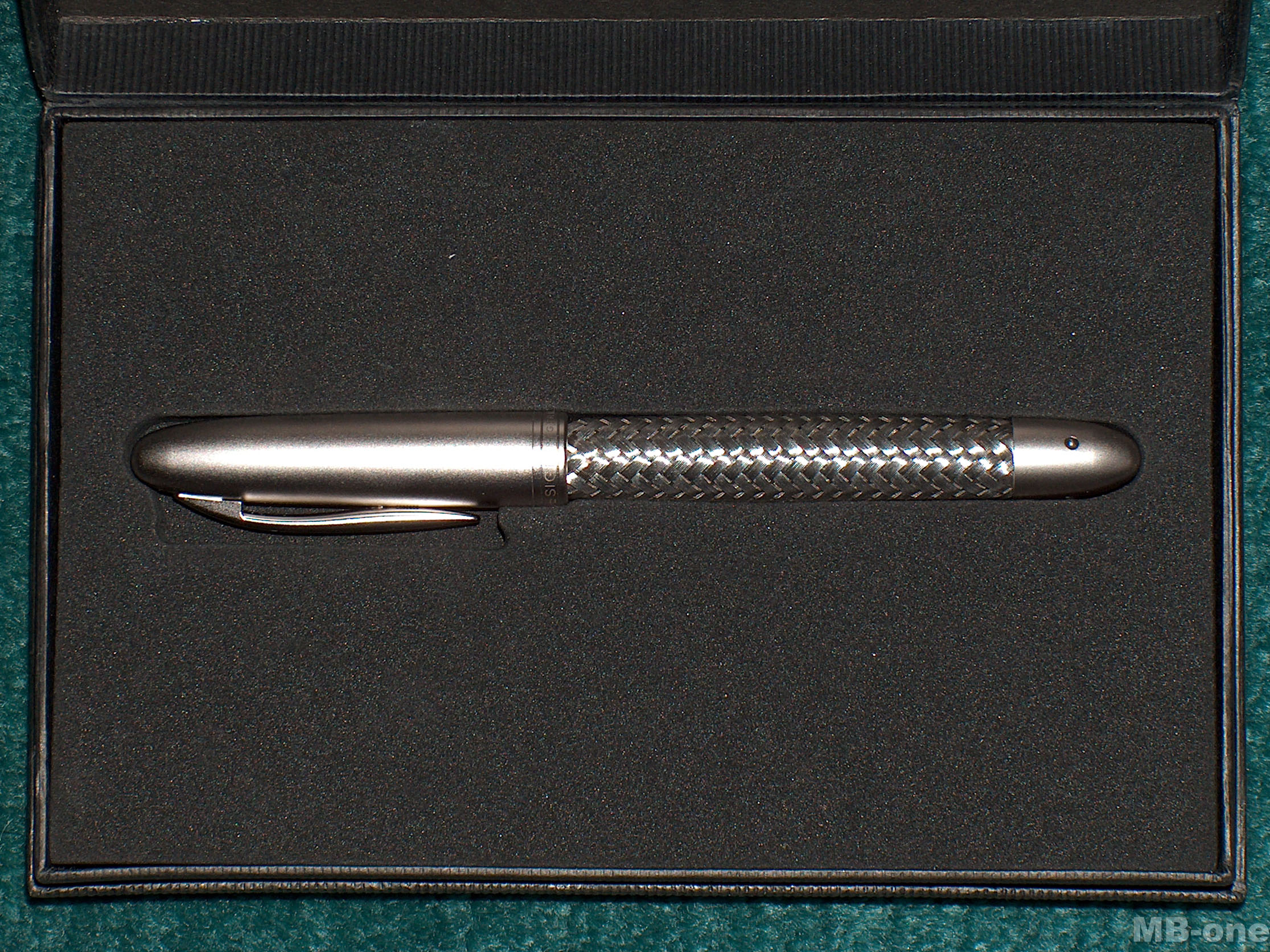 Rollerball-Pen of F.A. Porsche Design, made by Faber-Castell